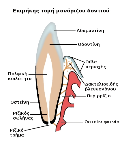 greek tooth diagram